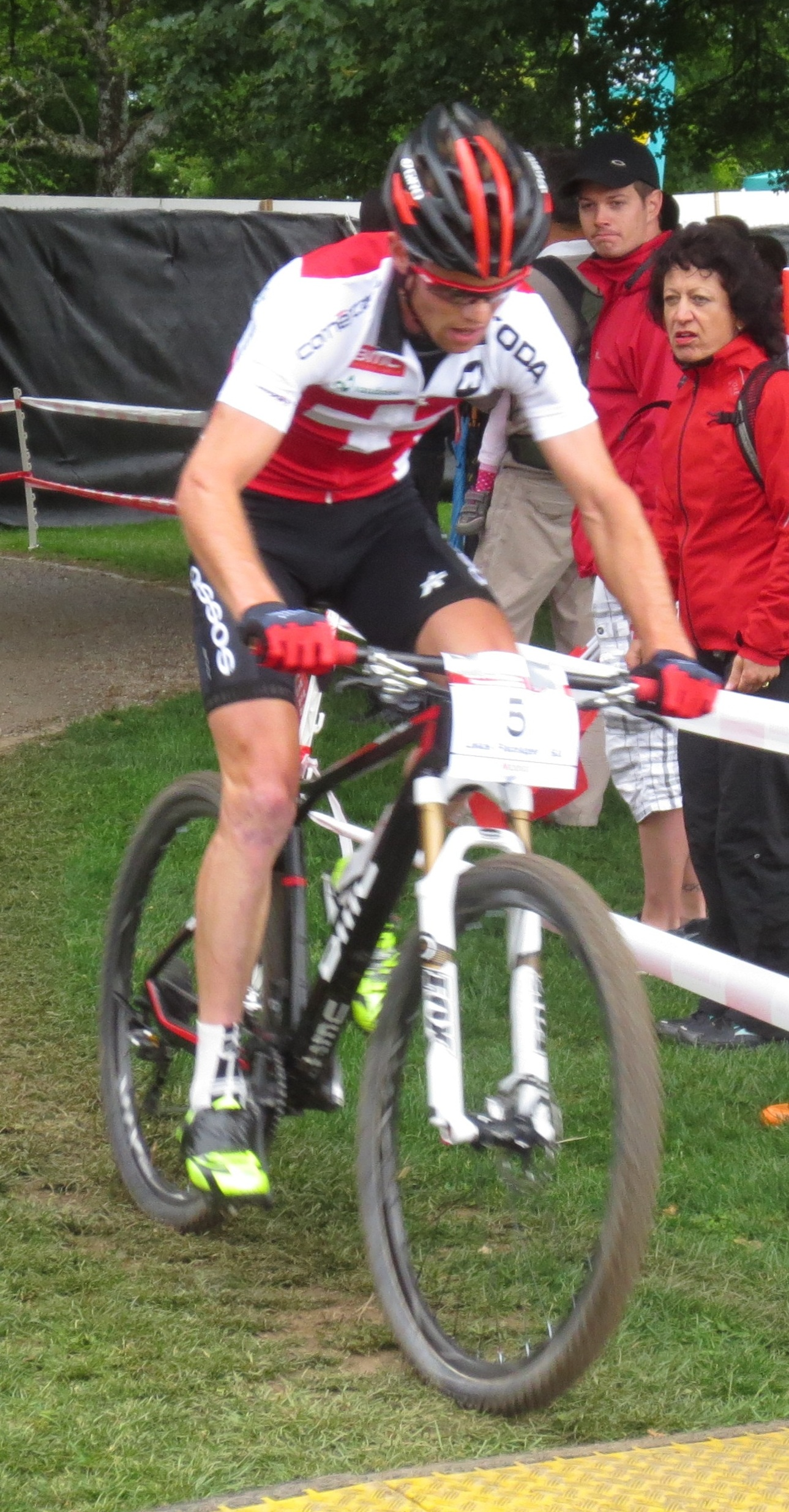 Lukas Flückiger at the 2013 European Mountain Bike Championships in Bern, Switzerland